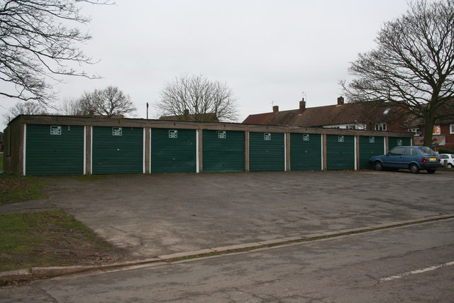 Garages on Link Way These are a row of garages in Link Way, Arborfield taken from the side of the road by Emblem Crescent. On a school day all around here is packed with cars.